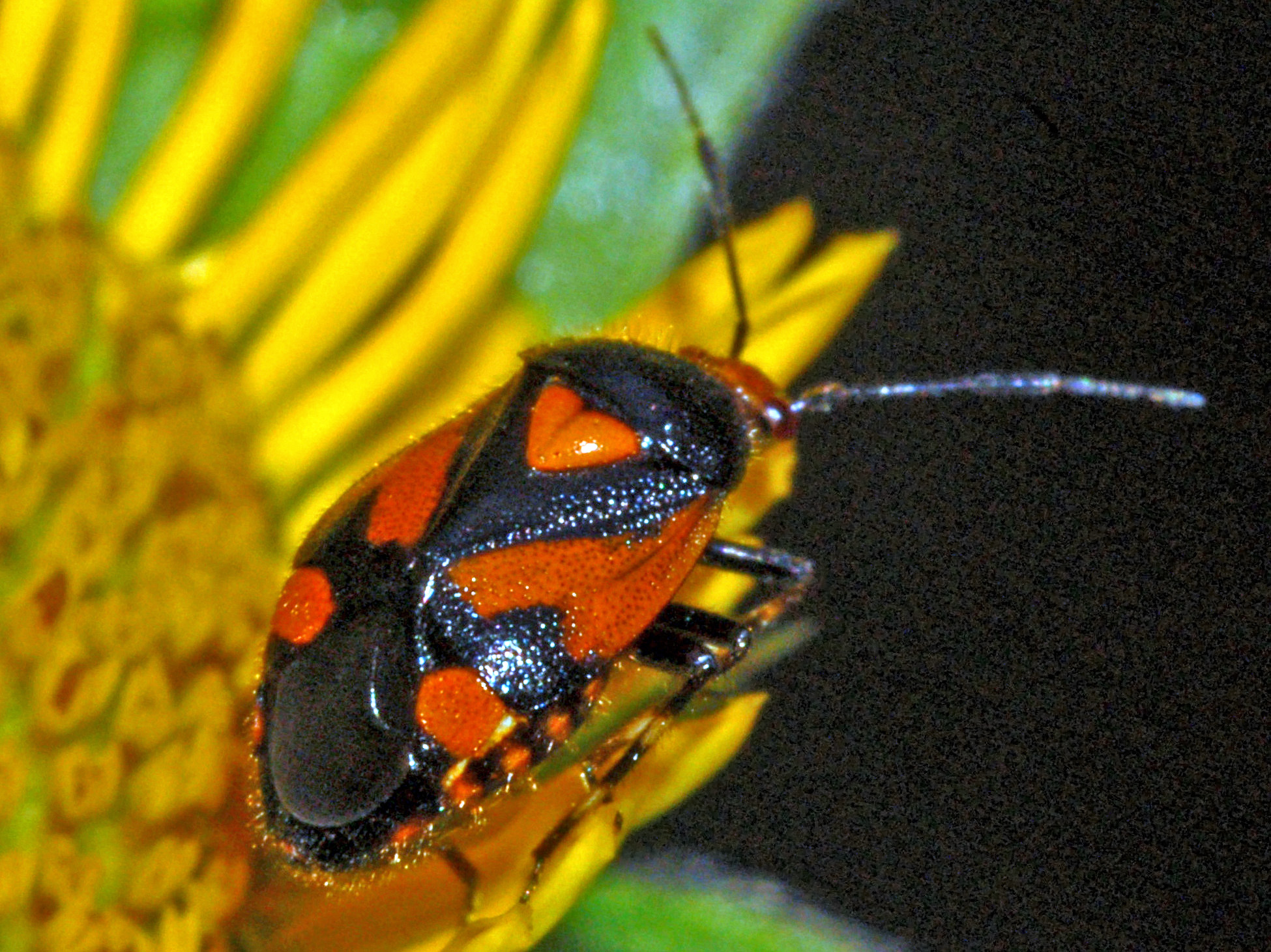 Deraeocoris schach. Genova, Italy